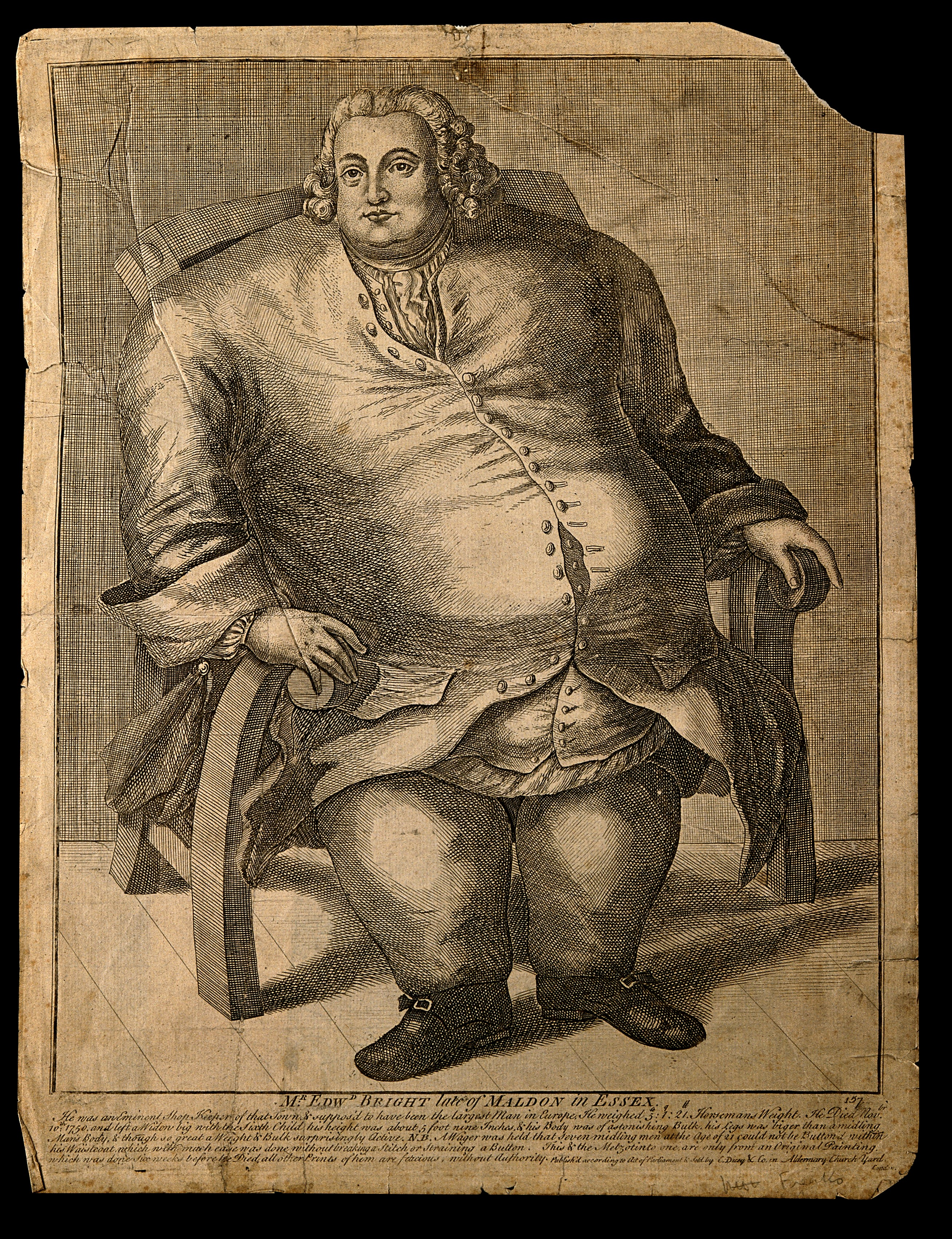 Edward Bright, a man weighing forty three and a half stone. Line engraving. Iconographic Collections Keywords: portrait prints; bright, edward, 1721-1750; engravings; Obesity; Edward Bright